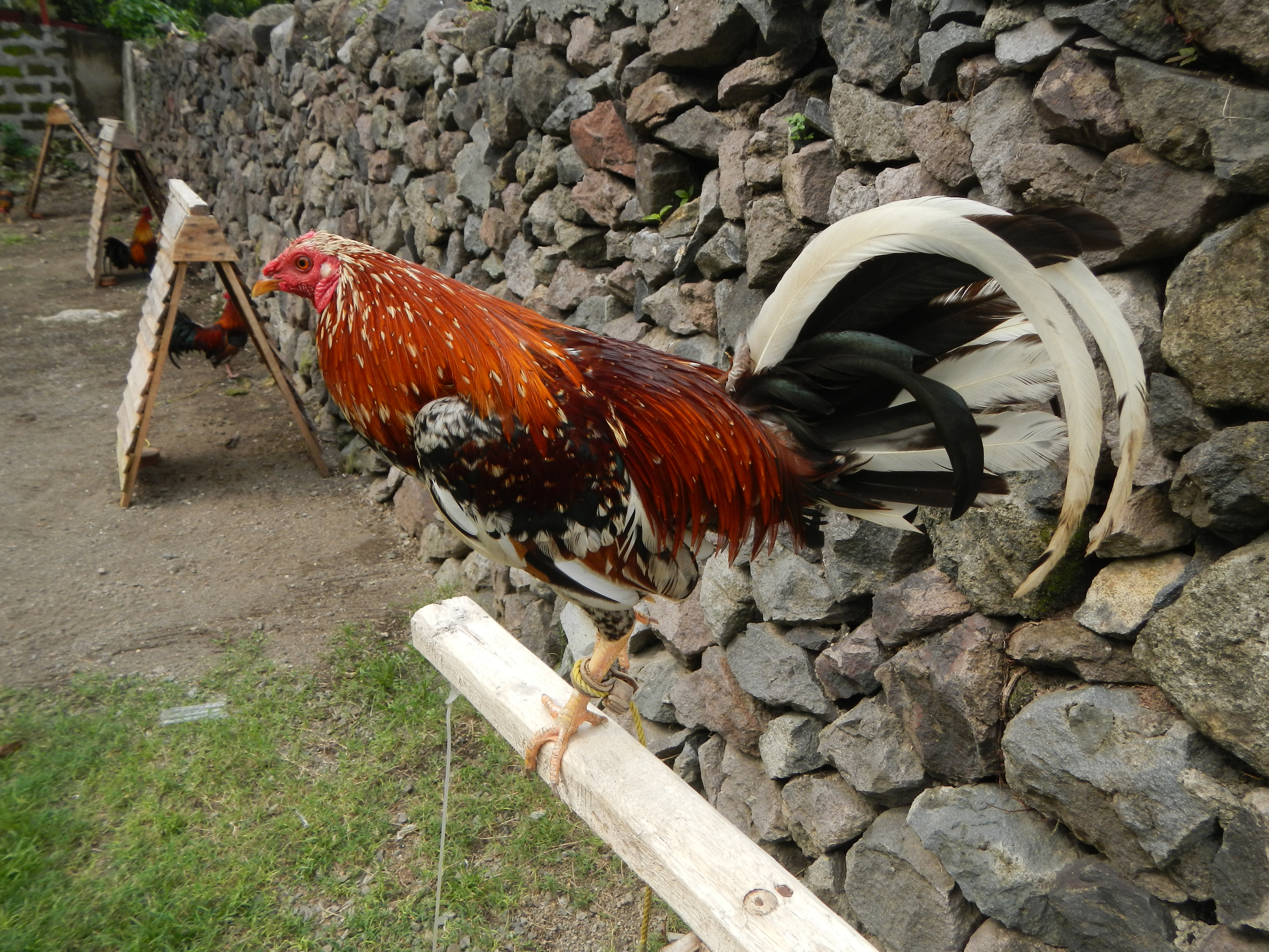 Gamecock[1] A gamecock or game fowl is a type of rooster with physical and behavioral traits suitable for cockfighting. [2]--- in the -- Immaculate Mary (Hardin ni Inang Maria)[3] - just beside the scenic -- Alligator Lake, Laguna Region IV-A Coordinates 14°10′57″N 121°12′23″E 23 hectares (57 acres) Surface elevation 2 metres (6.6 ft) - Tadlac Lake is one of the eight crater lakes within the Laguna de Bay watershed. Alligator Lake aka Enchanted Lake aka Tadlac Lake - in Barangay Tadlac, Los Baños[4]